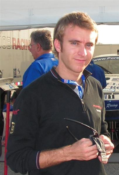 Taken by me at Road Atlanta on September 29, 2005.